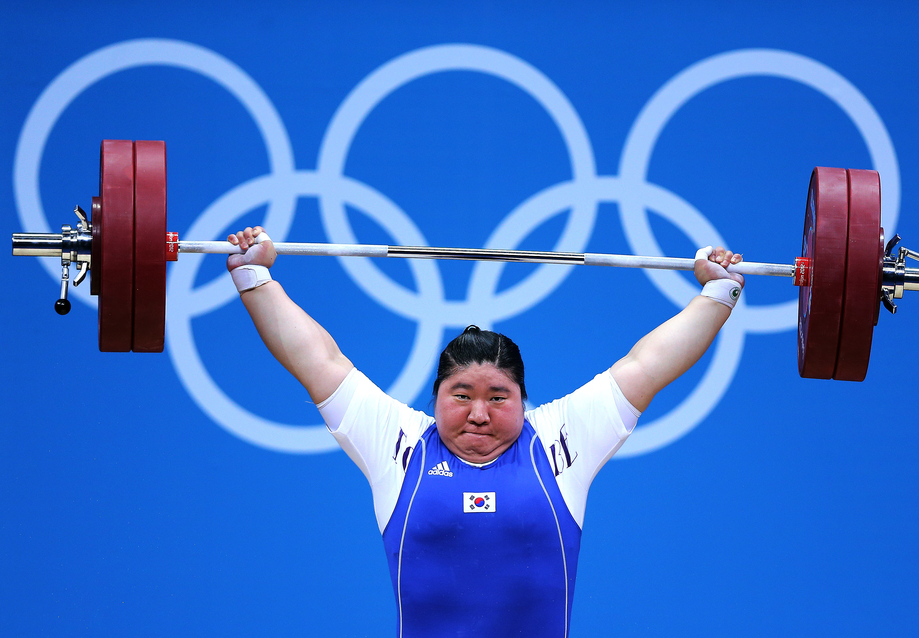 2012 London Olympic Games Mi-Ran Jang of South Korea competes during the women's +75kg event at the London 2012 Olympic Games Weightlifting competition, London, Britain. 2012.08.06. Photo by Korean Olympic Committee Ministry of Culture, Sports and Tourism Korean Culture and Information Service 2012 런던 올림픽 여자 +75kg급에 출전한 장미란 선수 사진제공 - 대한체육회 문화체육관광부 해외문화홍보원